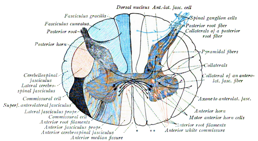 An anatomical illustration from the 1908 edition of Sobotta's Anatomy Atlas